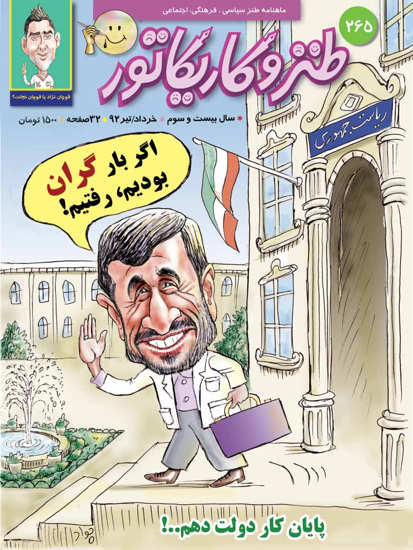 Back cover of Humor & Caricature, No 265, June/July 2013